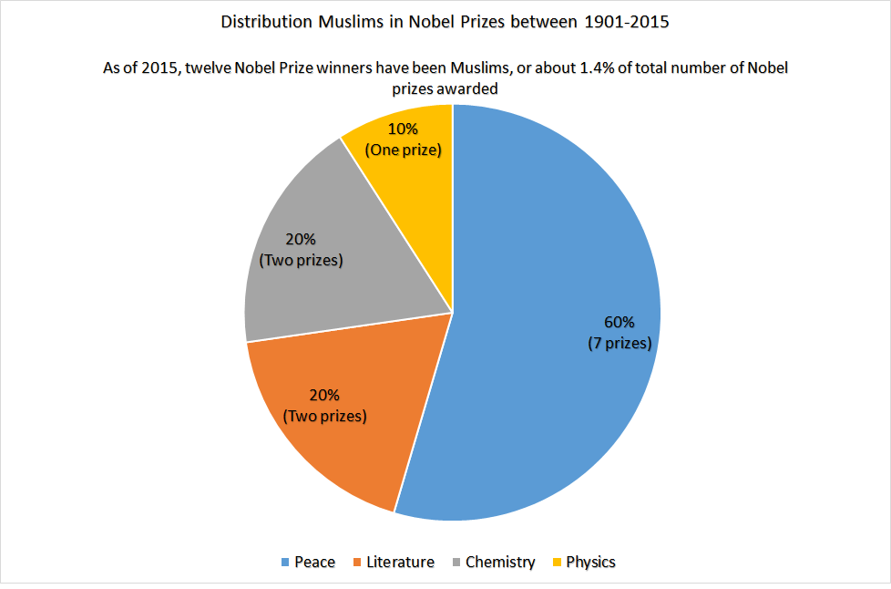 And as of 2015, twelve Nobel Prize winners have been Muslims. More than half of the twelve Muslim Nobel laureates were awarded the prize in the 21st century. Seven of the twelve winners have been awarded the Nobel Peace Prize, Although Muslims make up over 23.2% of the worlds population, they have won a total of 1.4% of all Nobel prizes between 1901 and 2015.